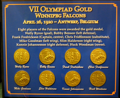 1920 Olympics Hockey Gold medals